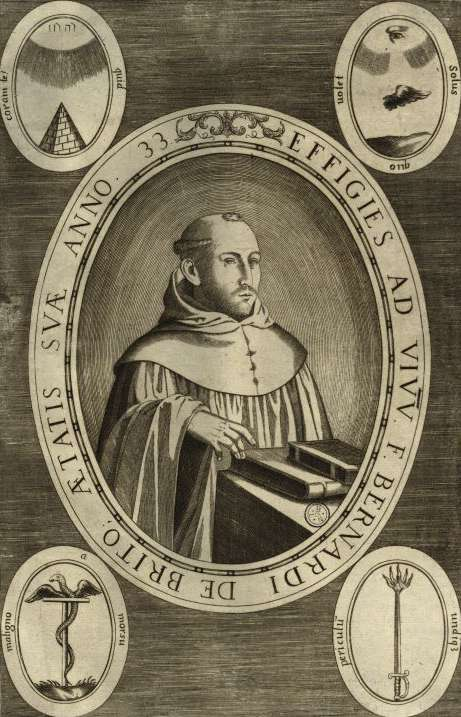 Engraving depicting Friar Bernardo de Brito, O. Cist., Portuguese historian (1569-1617)